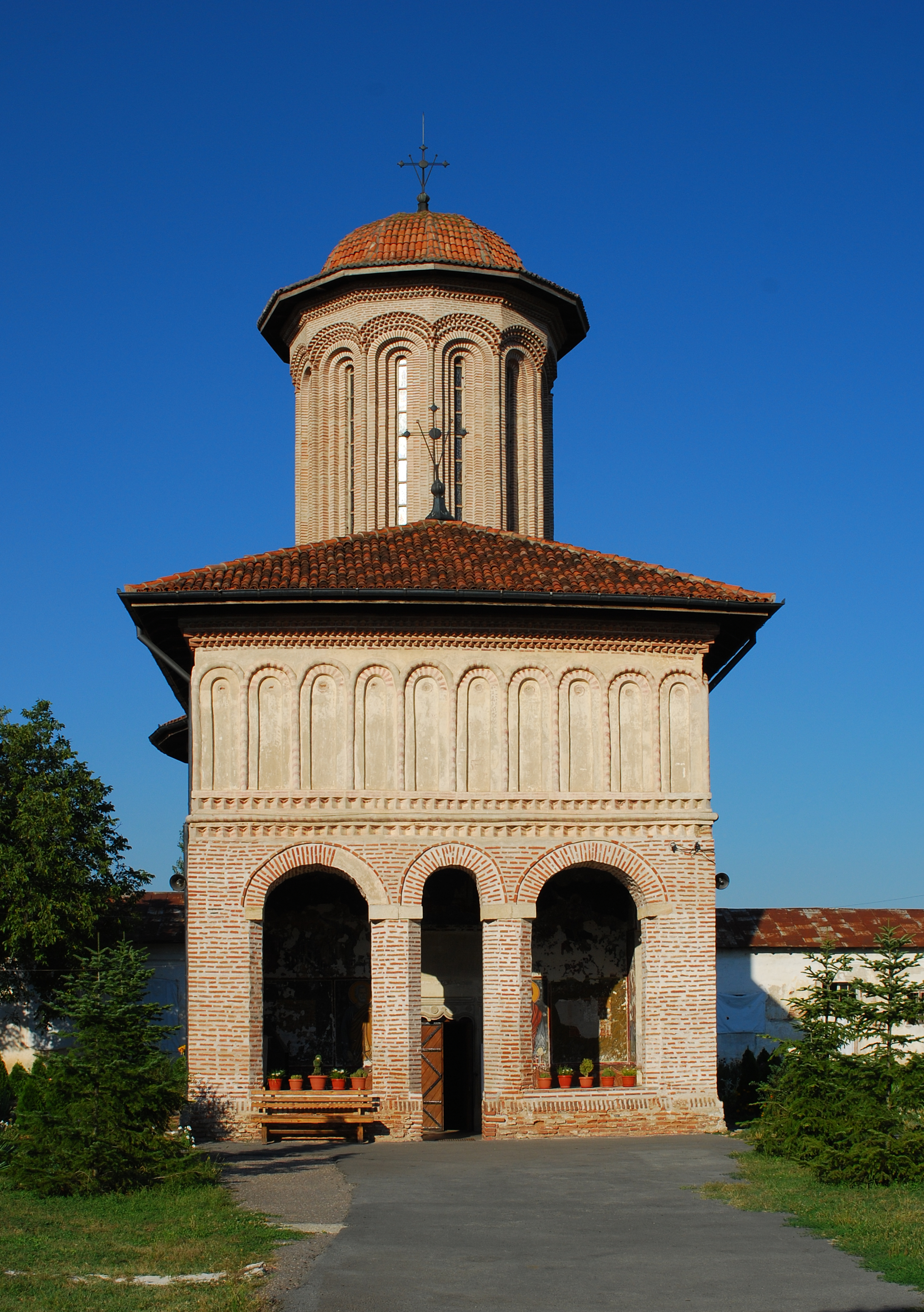 Saint Mercurius church from the Romanian Orthodox monastery in Plătăreşti, Călăraşi CountyRomână: Biserica Sf. Mercurie a mănăstirii ortodoxe Plătăreşti, judeţul Călăraşi, România 01